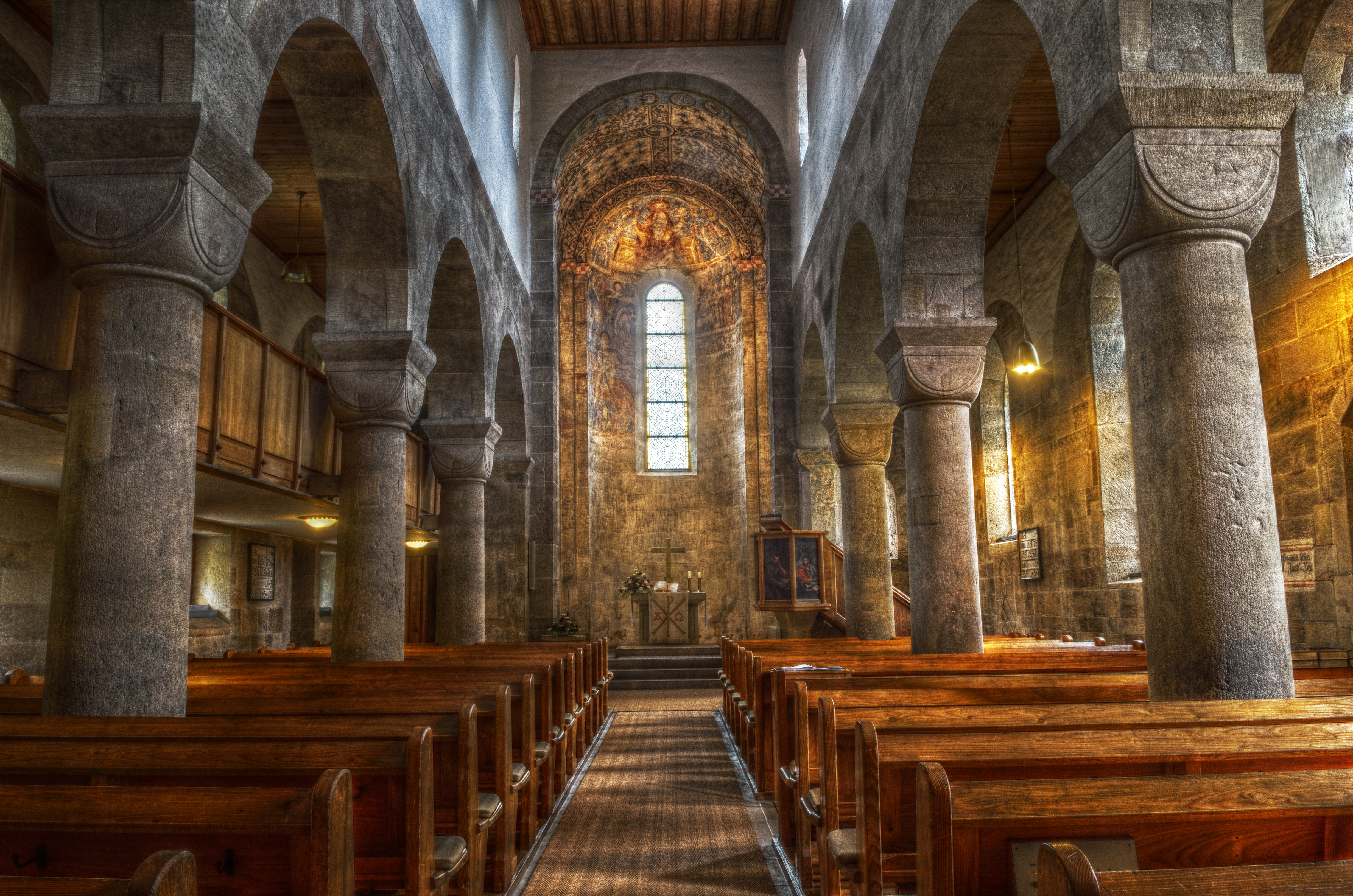 The Martin's church in Neckartailfingen. It has been made of three differently exposured takes that were combined using HDR techniques.